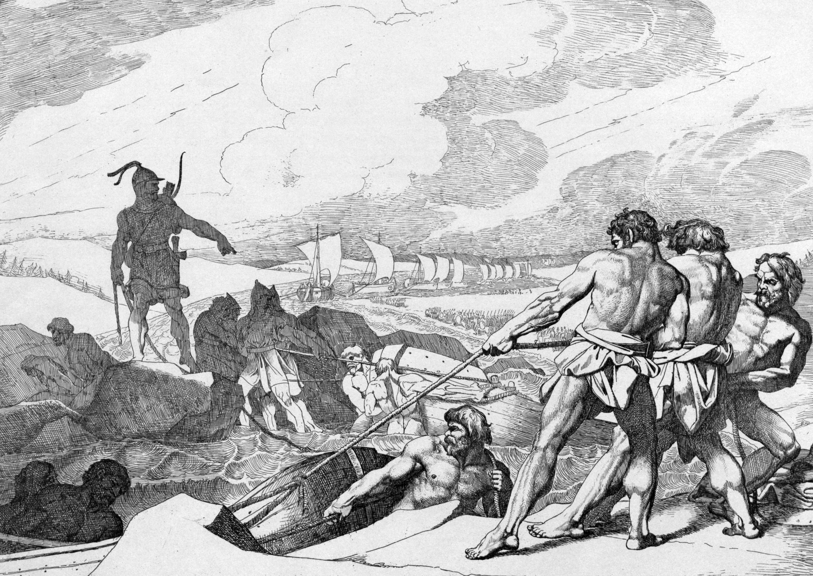 Rus'–Byzantine War (907).